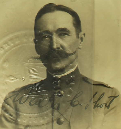 Walter Cowen Short (US Army brigadier general) 2